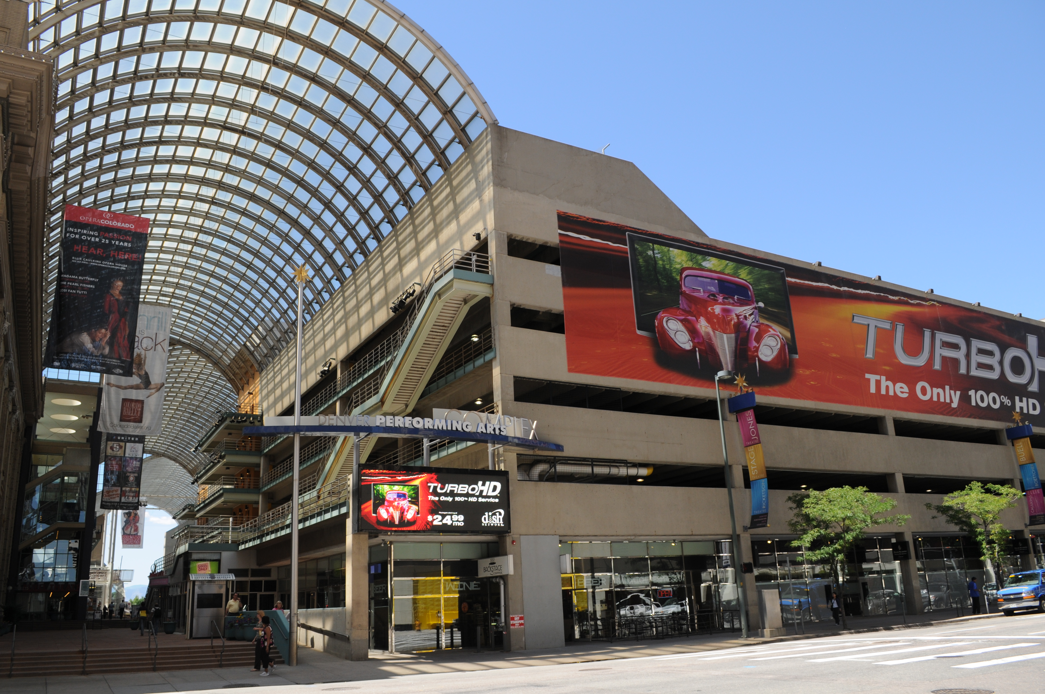 Denver performing arts complex outside